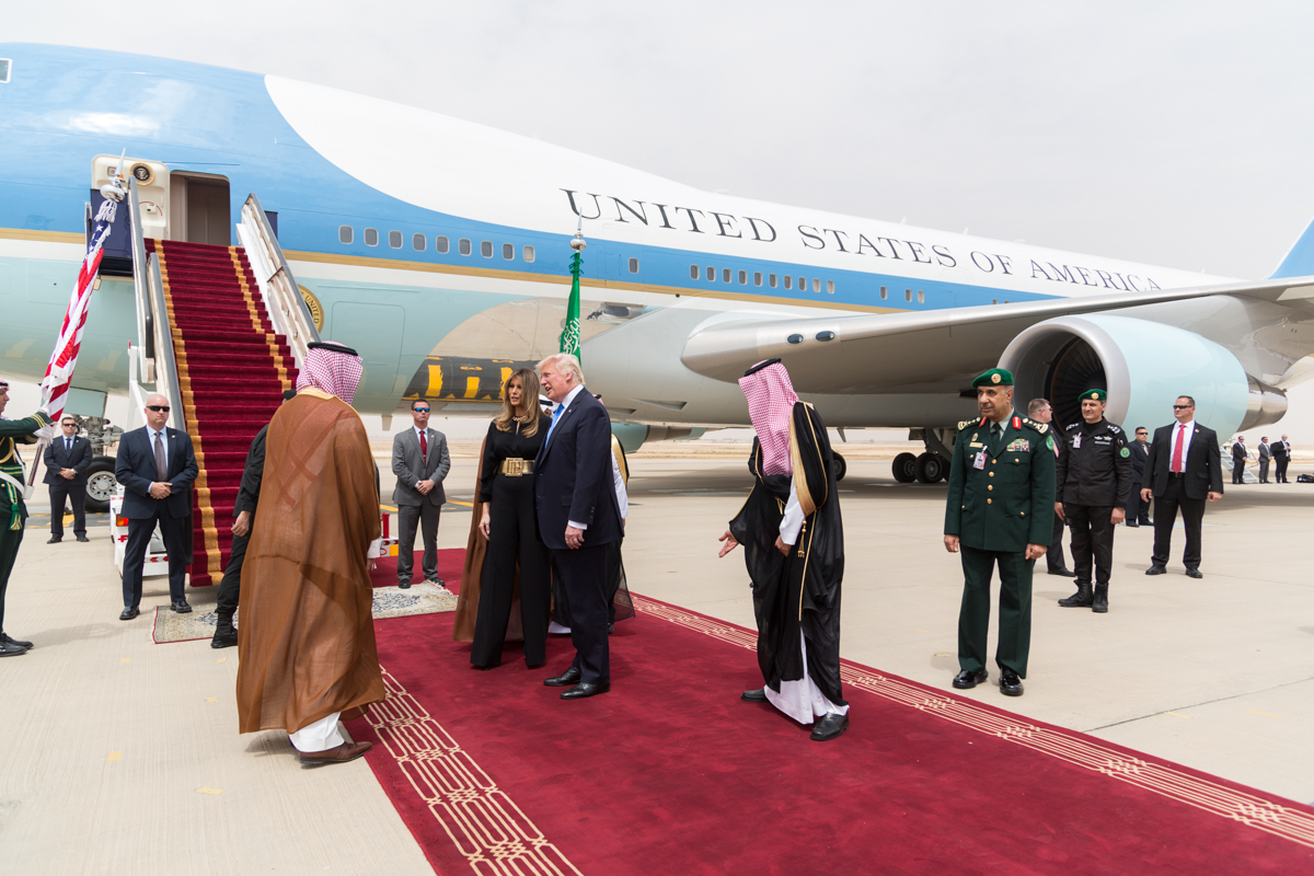 President Donald Trump and First Lady Melania Trump are welcomed by King Salman bin Abdulaziz Al Saud Saturday, May 20, 2017, on their arrival to King Khalid International Airport in Riyadh, Saudi Arabia. (Official White House Photo by Shealah Craighead)